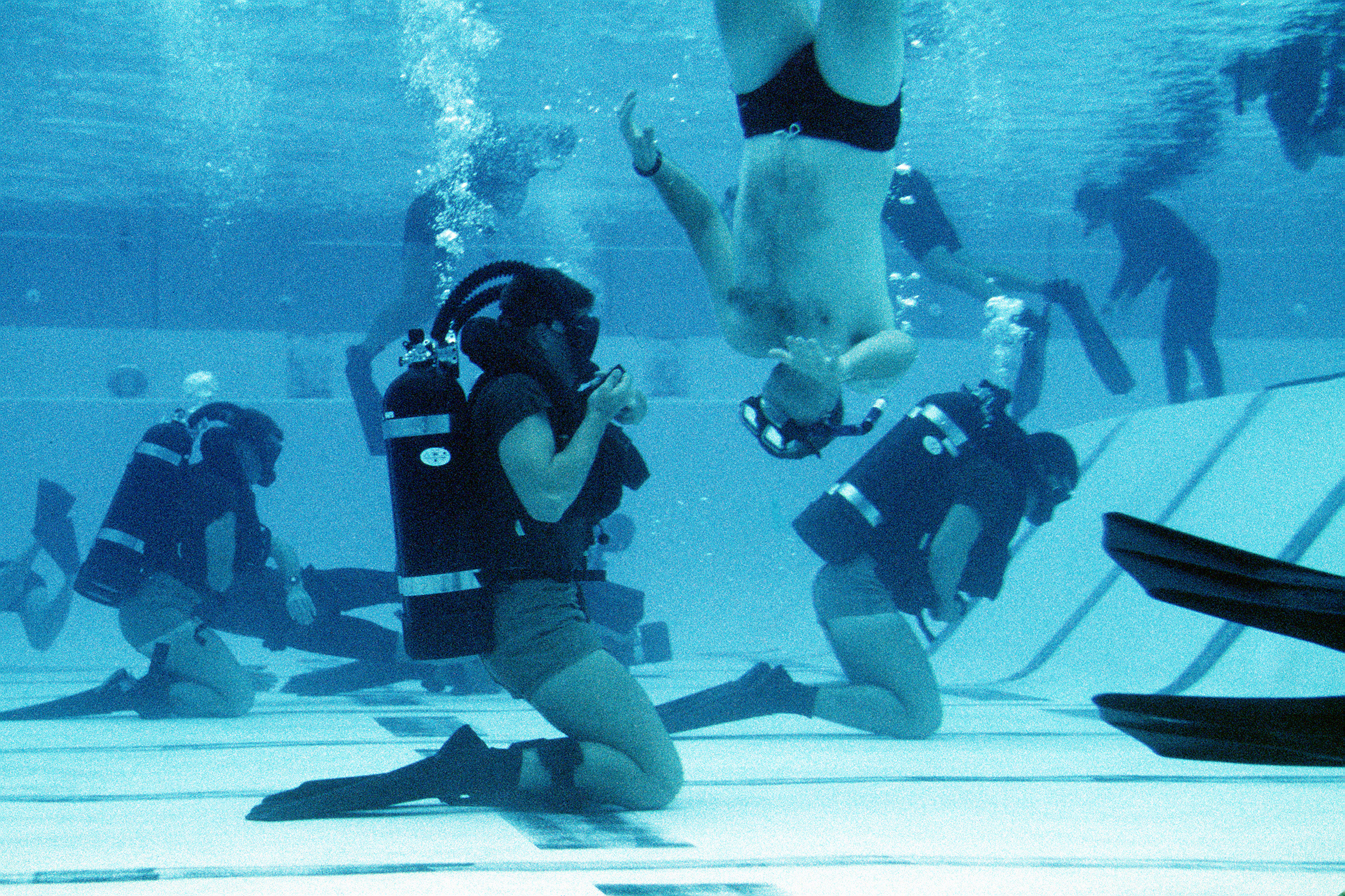 Second phase instructors keep a close eye on Basic Underwater Demolition/SEAL (BUD/S) in the combat training tank. The (BUD/S) are learning to exchange scuba gear while submerged.